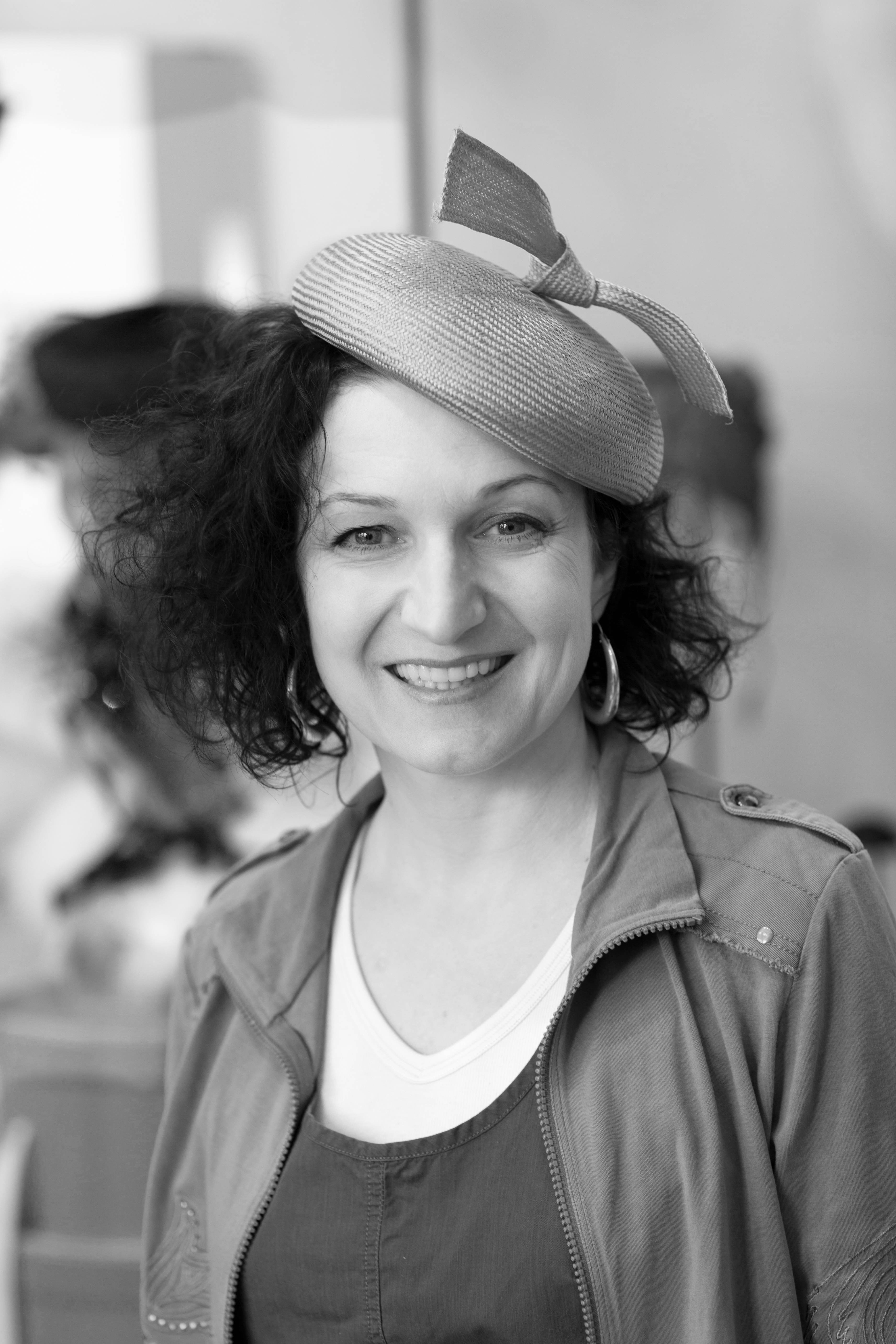 Portrait of Christine Rohr - Master Milliner